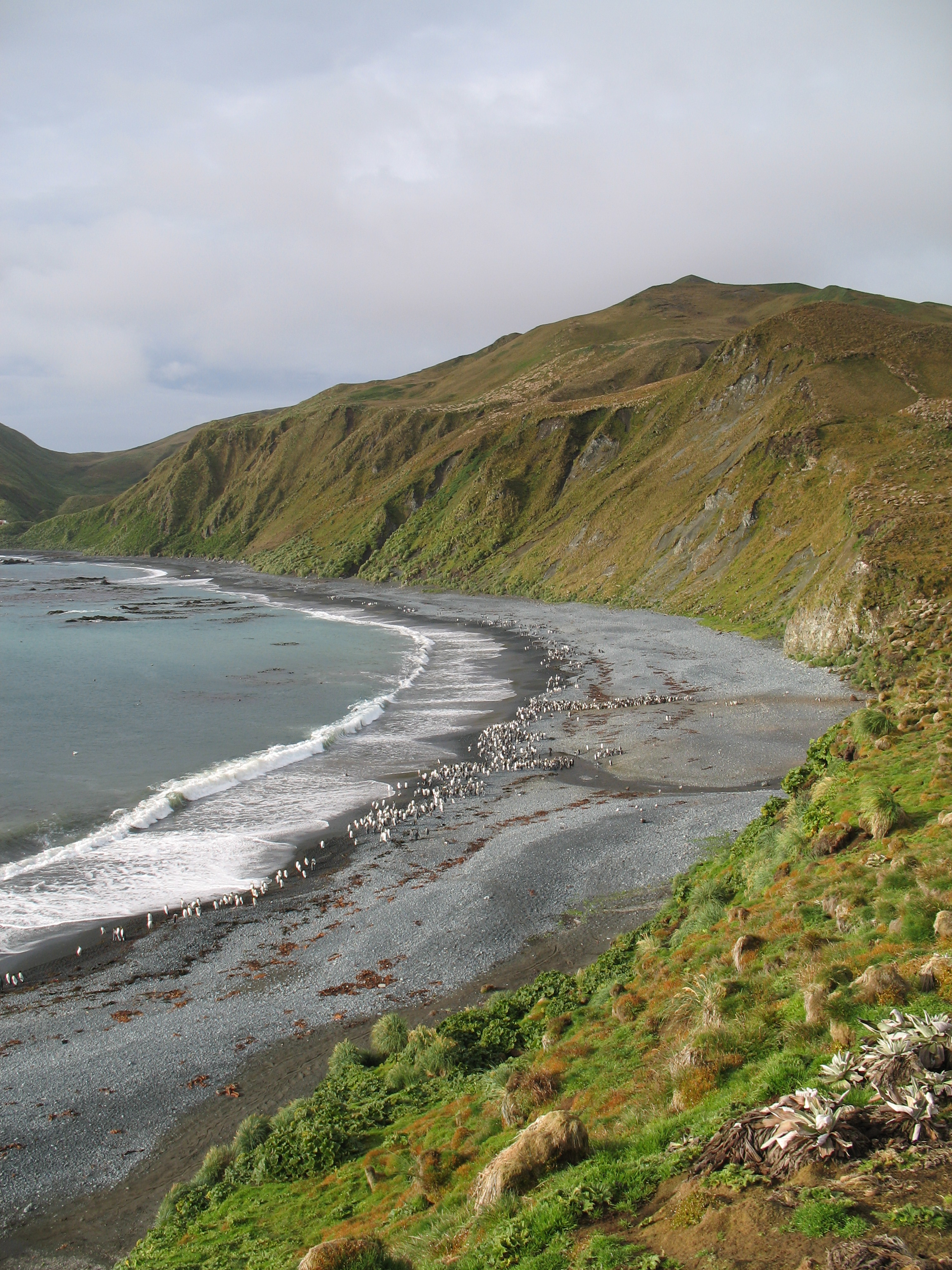 View over Macquarie Island beach (with Royal and King penguins)